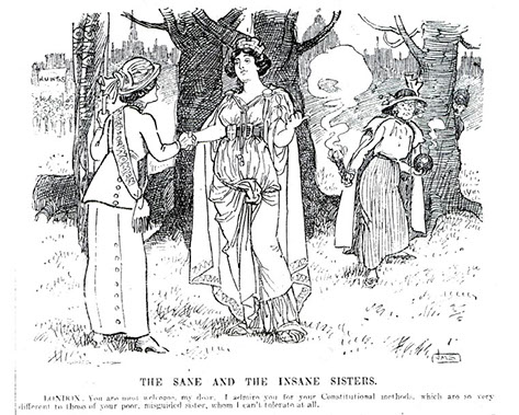 Cartoon by JM Staniforth. Dame London welcomes a suffragist while behind her a suffragette holding a bomb, depicted as dishevelled in contrast to her 'sister', threatens London.